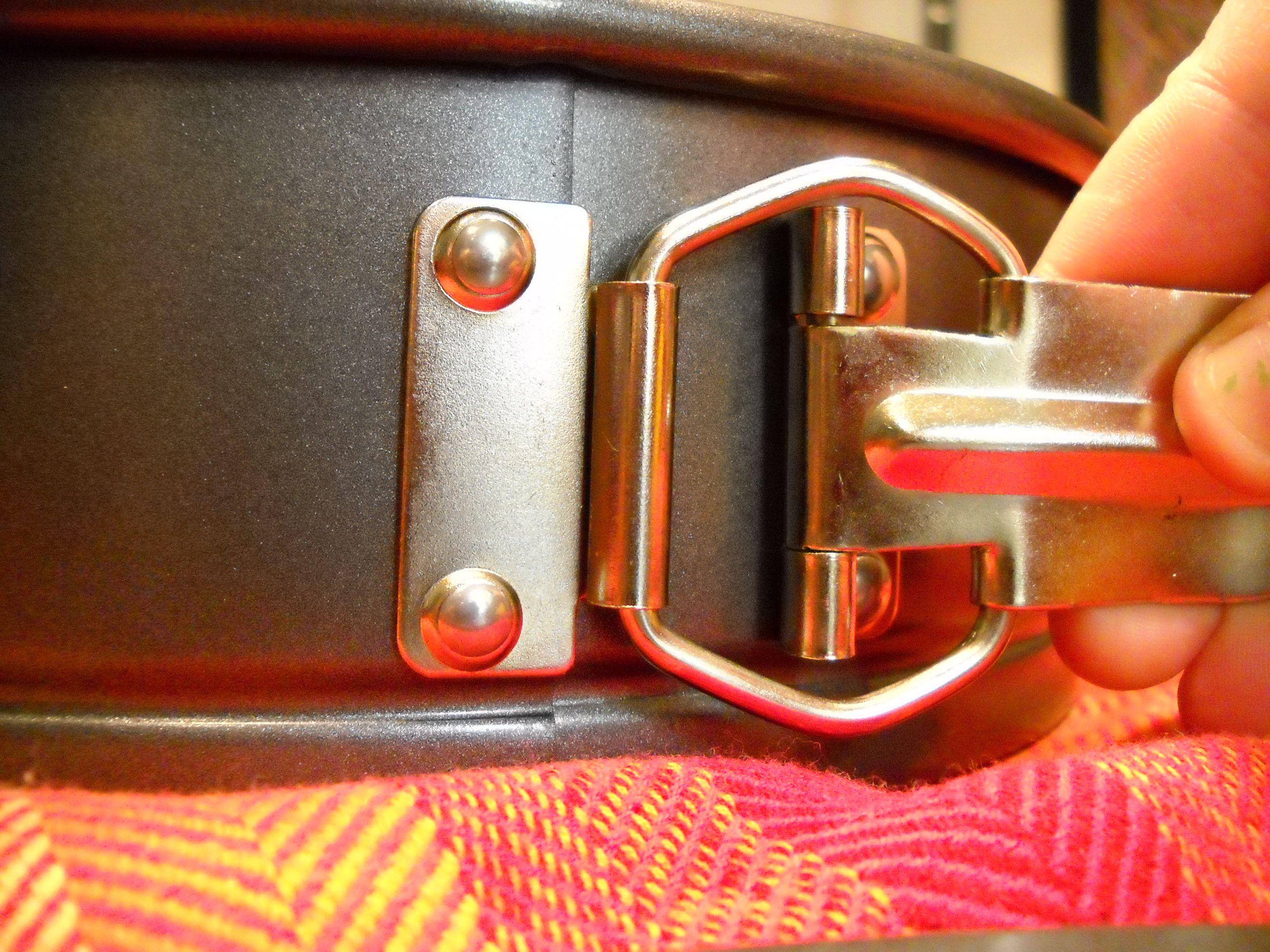 This image is a close-up taken of the latch on a Springform Pan.